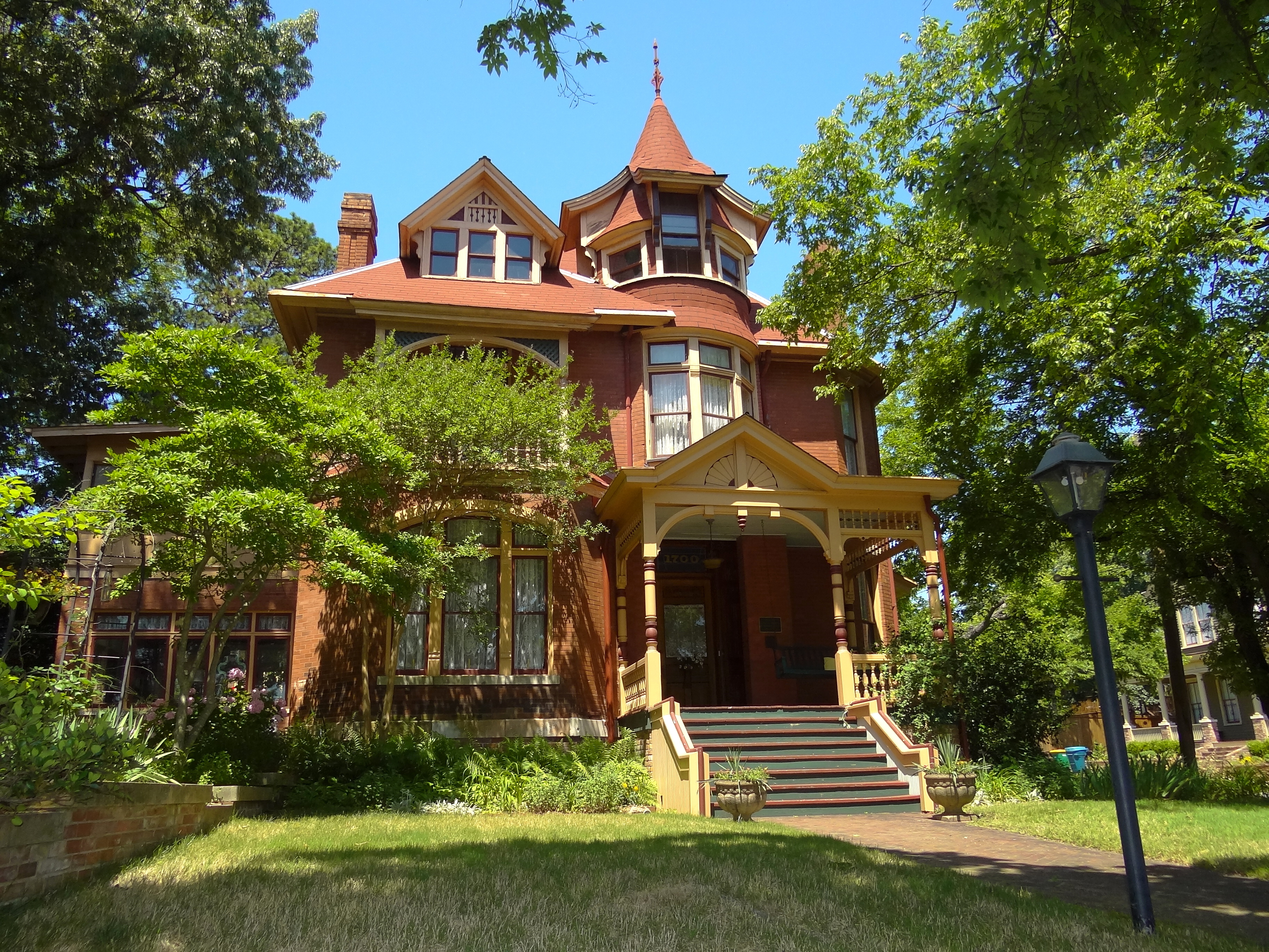 Facade in Historic District Near Governor's Mansion - Little Rock - Arkansas - USA - 02